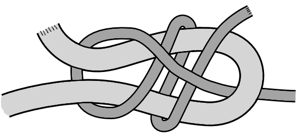 double sheet bend